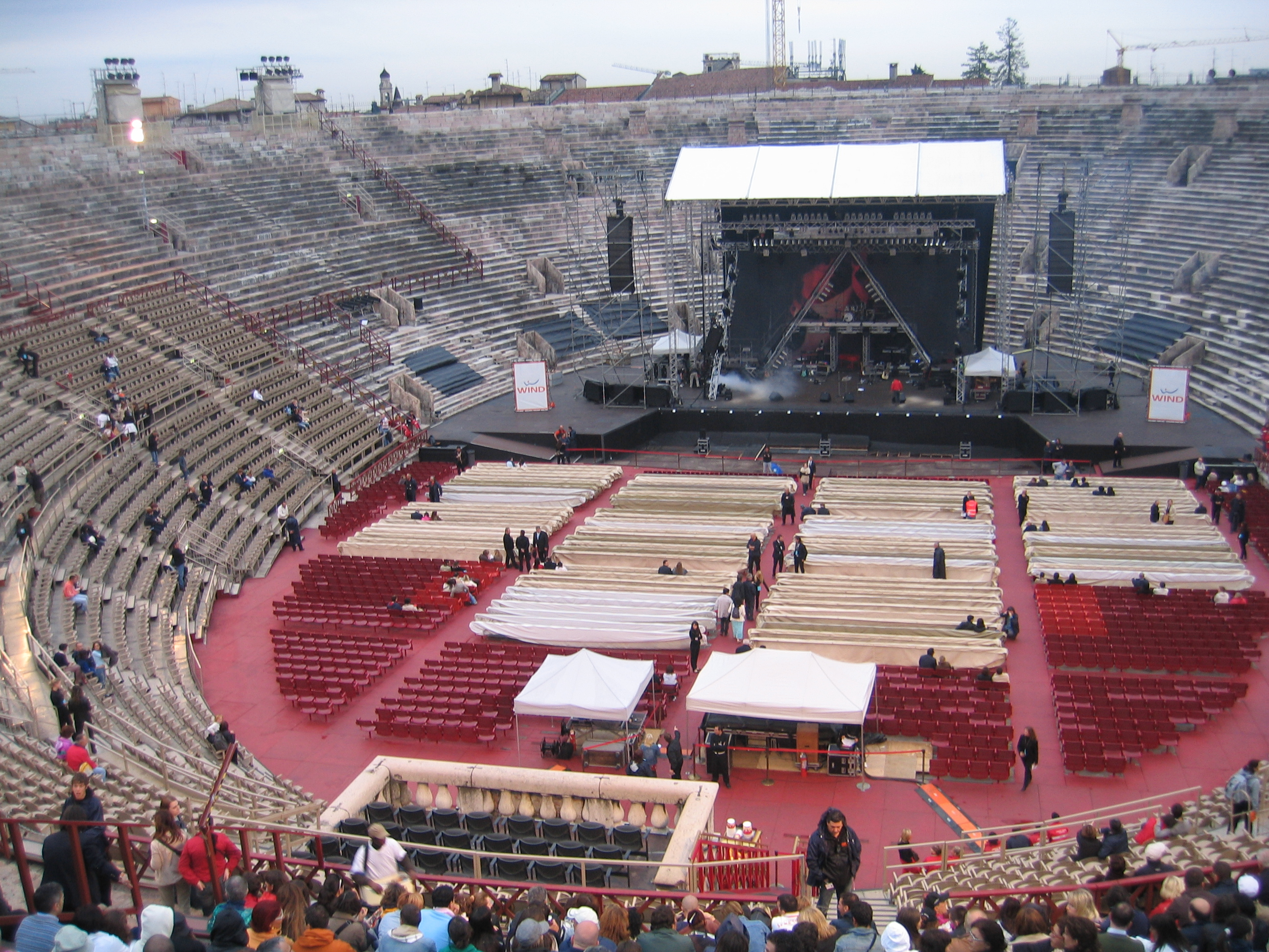 The Arena of Verona during Antonello Venditti's concert